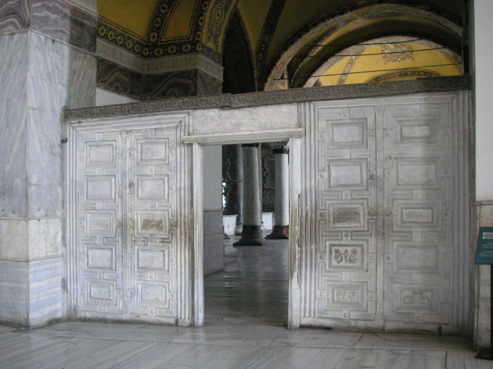 The "Marble Door" inside the Hagia Sophia. It was used by the participants in synods, they entered and left the meeting chamber through this door.